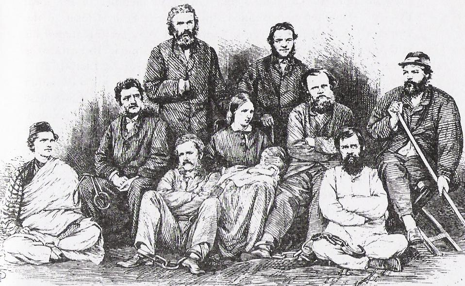 Prisoners of Tewodros II in Meqdela, 1868 First row (standing), from left to right : Henry Stern (a missionary) and Mr Rosenthal. Middle row (seating), from left to right : Hormuzd Kassam (envoy sent to negotiate the release the prisoners), Mrs Rosenthal and her child, Blanc and Capitain Cameron (the British consul). Lower row (on the floor), from left to right : Kerans, Prideaux and Pietro.